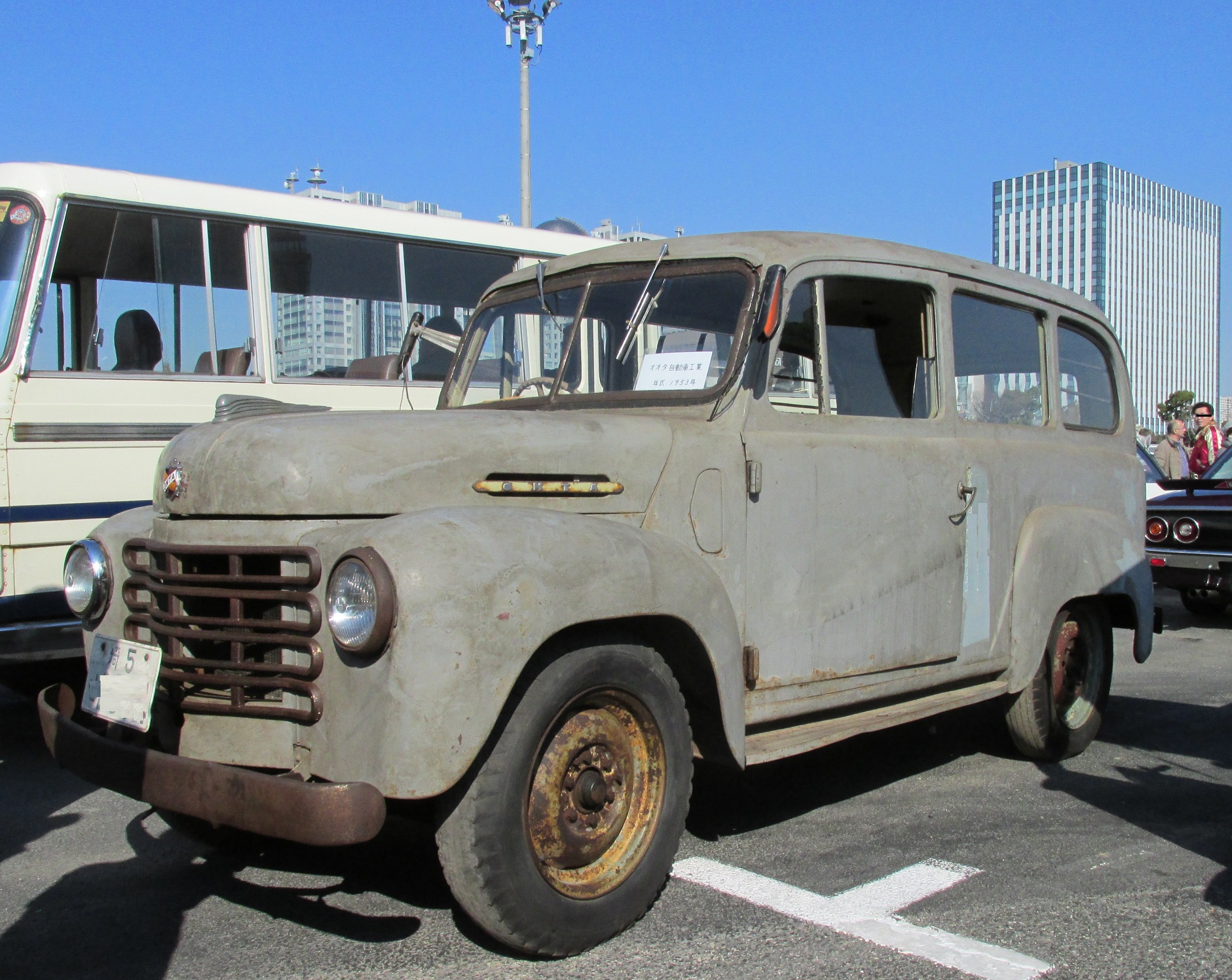 1953 Ohta Type-VF van(2)